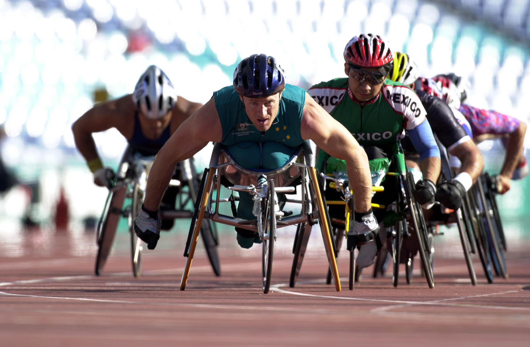 Action shot of Australian wheelchair racer John Maclean during the 10 km heat wheelchair race event at the 2000 Sydney Paralympic Games, Day 02. Front view.